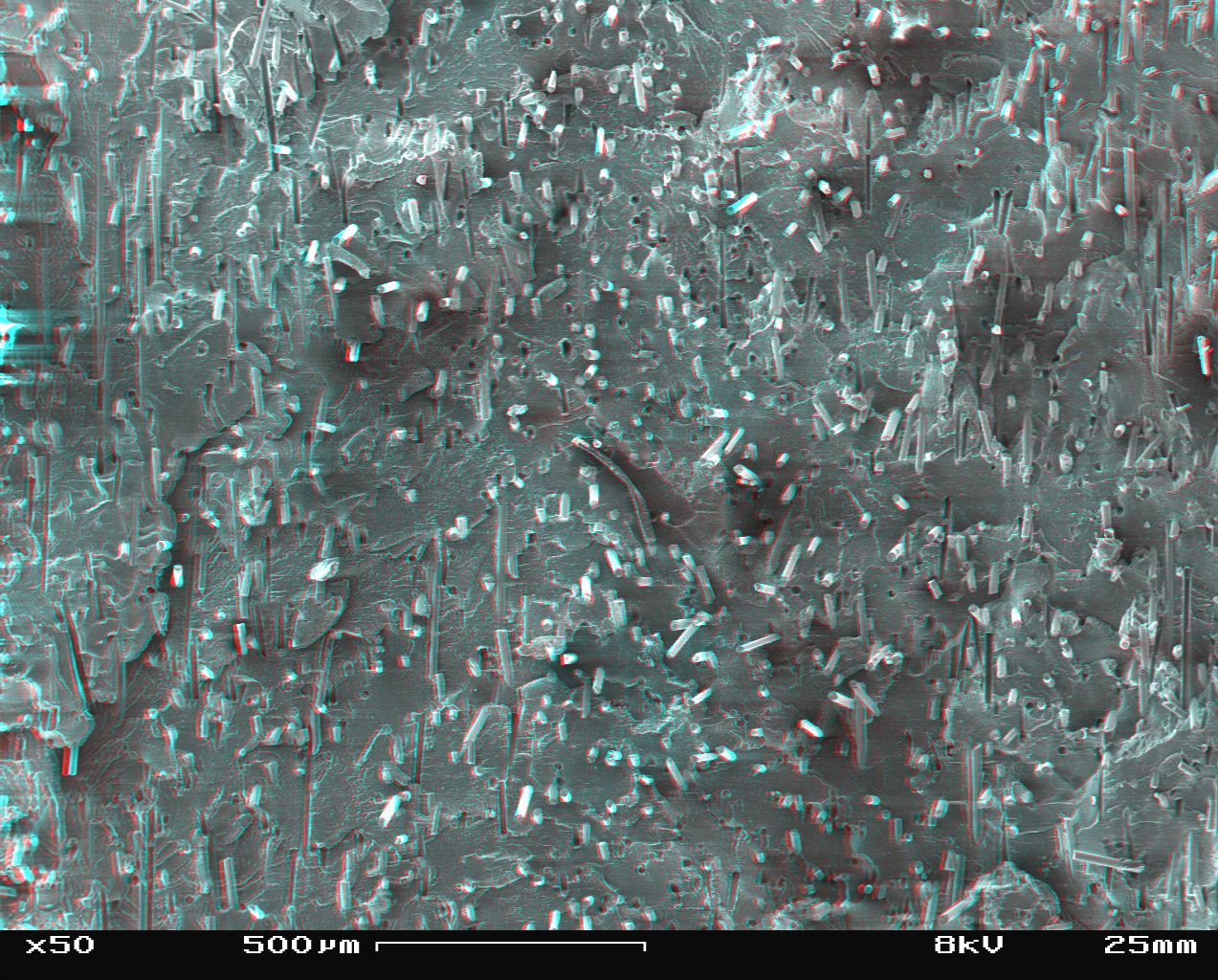 This is a stereoscopic SEM (scanning electron microscope) view of a fractured glass reinforced plastic after a 25 nm platinum sputter coating. Magnification 50x (relative to medium format film).